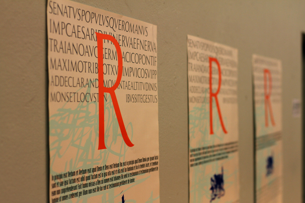 Illustration of the letter, R.